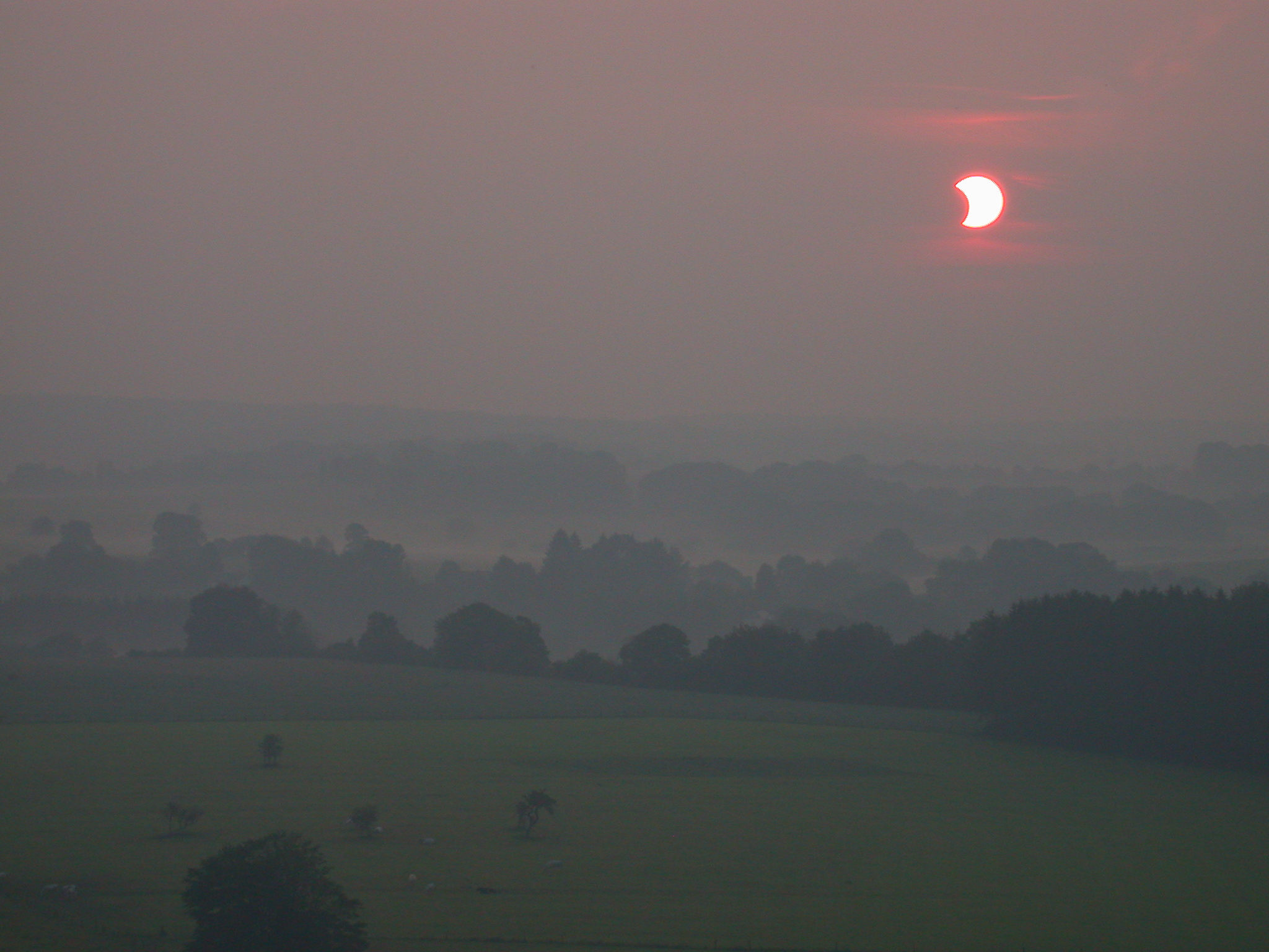 Solar eclipse of May 31, 2003; Chassepierre, Belgium